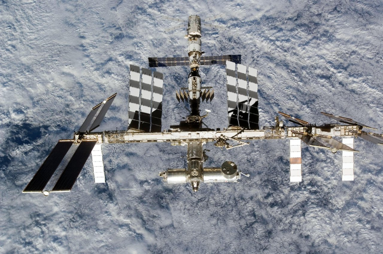 ISS front viewed from STS-124 flyaround